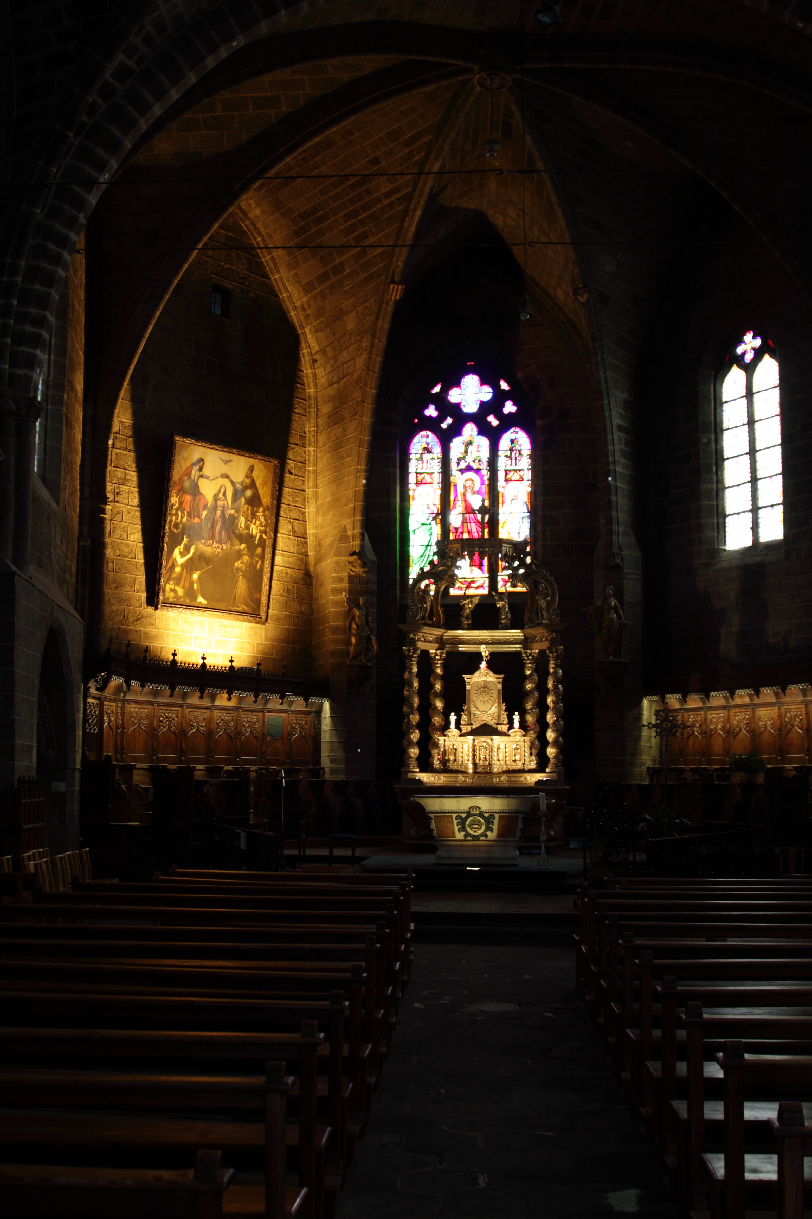 Langeac is a commune in the Haute-Loire department in south-central France. It is located around 30 km west of Le Puy-en-Velay, and around 100 km south-west of Lyon. In 1010 , Pons de Gevaudan gives the church of Saint-Gal in the chapter of Saint-Julien de Brioude . The priory of Saint-Gal is in 1220 . It depends on the abbey of La Chaise-Dieu. He had to be given before that date by the Chapter of the Abbey Brioude casadéenne. At the xiii th century , Langeac is the site of an archpriest of the diocese of Clermont with authority over 70 parishes. In 1264 , the bishop of Clermont , Guy de La Tour du Pin, established a chapter of fifteen canons in the church Saint-Gal by not taking into account the rights of the abbey of La Chaise-Dieu. It goes result in a conflict between the two authorities. An agreement is reached by the canons set by the prior to which they have loyalty. The Diocese of Saint-Flour on which Langeac is created by 1317 . In June 1319 , King Philip V the Tall Langeac confirmed as provost of the Bailiwick of Auvergne. After 1397 , the recipient of Auvergne Berthon Sannadre indicates that Langeac is one of the 13 best cities ( = good city walled city with city, militia and privileges under the protection of the King ) Lower Auvergne.